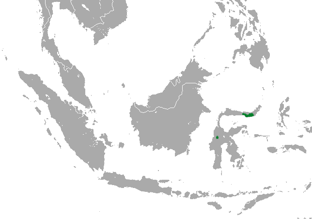 Small-toothed Fruit Bat (Neopteryx frosti) range